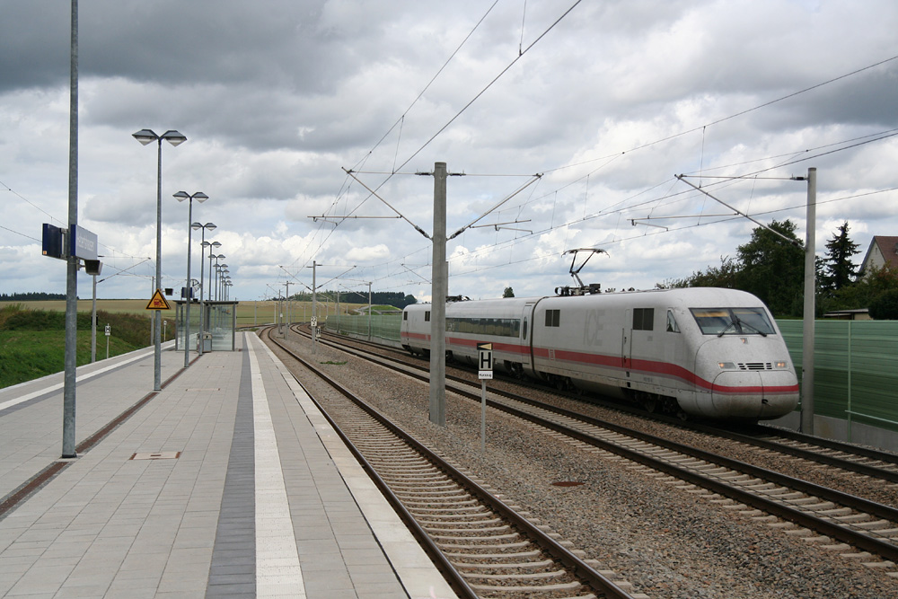 An ICE S train passes through the station of Hebertshausen, Munich–Ingolstadt railway line (Germany)